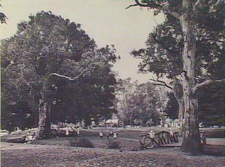 Children Playing in Hazelwood Park, Adelaide, South Australia in 1930.